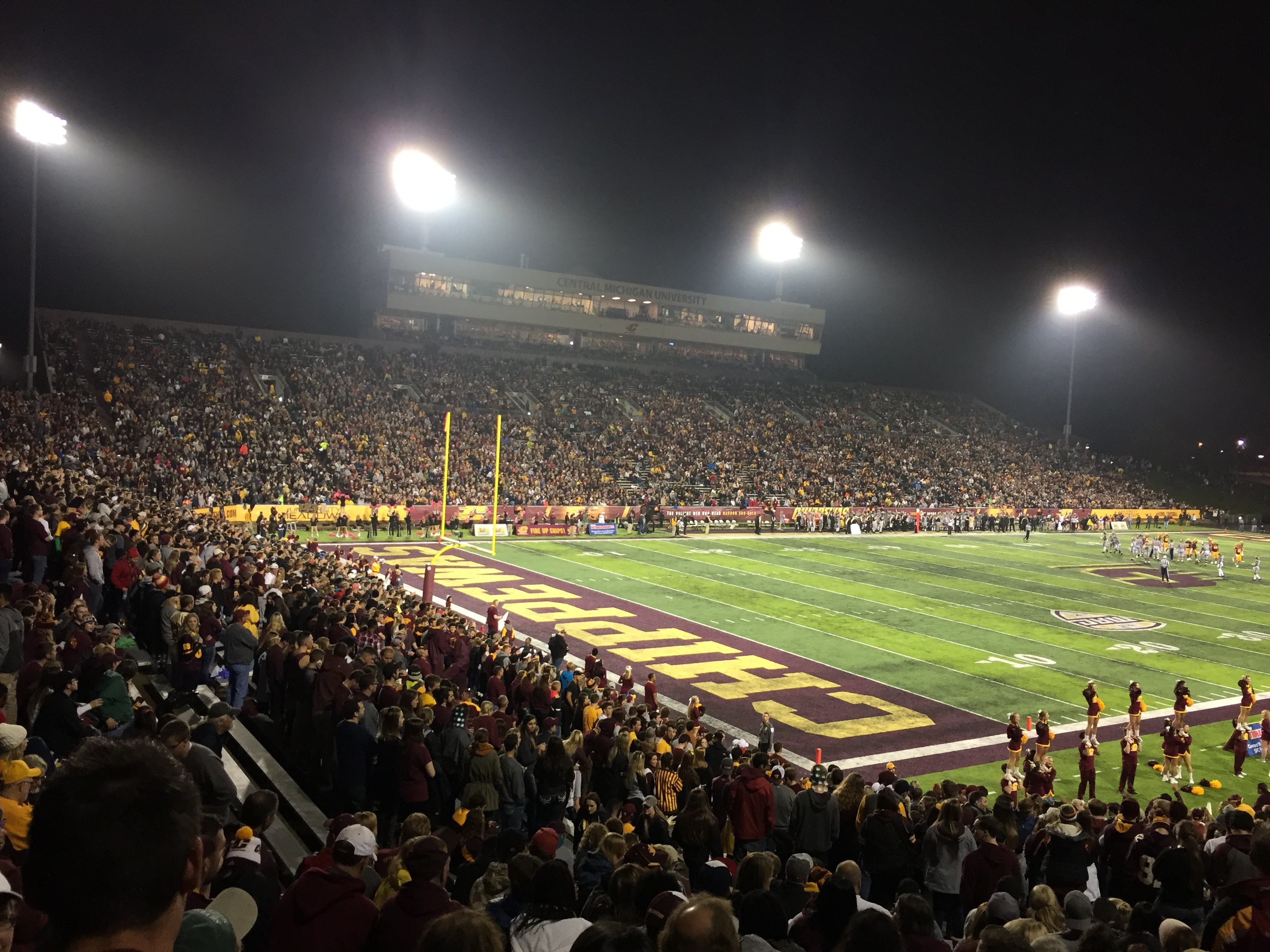 Kelly/Shorts Stadium. Night Game vs. Western Michigan, October 1st 2016.